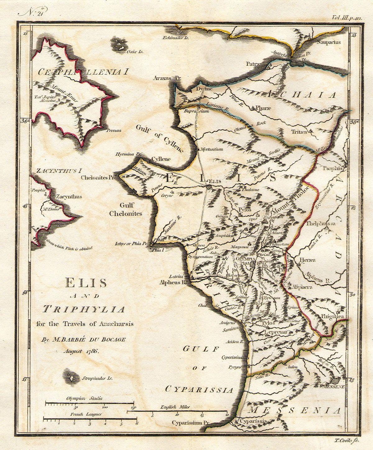 This lovely little map of Elis and Triphylia, in western Ancient Greece, was prepared by M. Barbie de Bocage in 1786 for the “Travels of Anarcharsis”. Taken from the early D’Anville map. The sanctuary at Olympia, located in this kingdom, was the home of the original Olympic Games in 776 B.C.E.